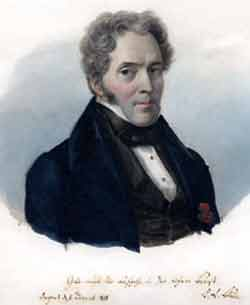 Charles Ludwig de Blume or Karl Ludwig von Blume was a German-Dutch botanist.